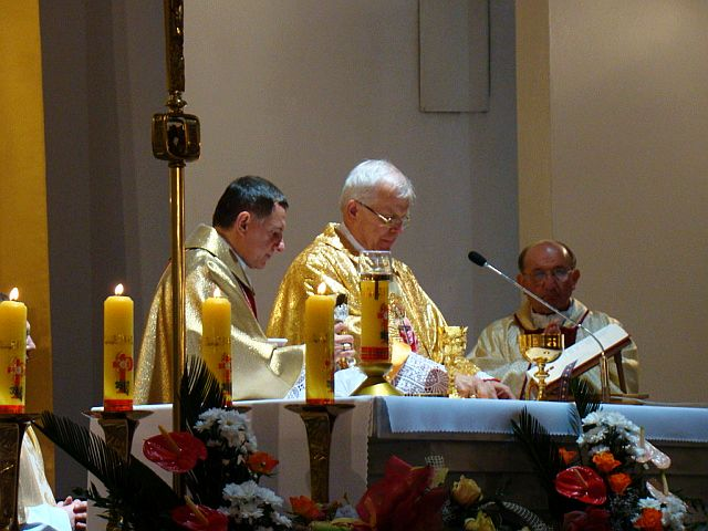 Sanok